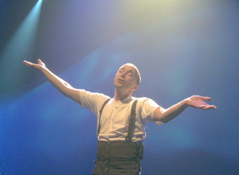 �sleik Engmark at the Comedy Festival opening, 2005